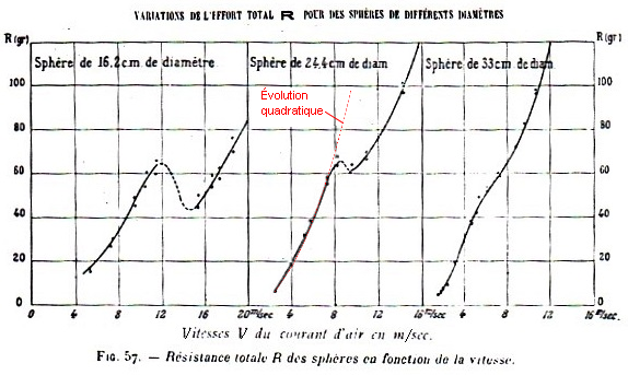 Drag of three spheres of different diameters according to their velocity. These drag (in grams-force) were measured by Eiffel (and his collaborators) in its wind tunnel.The normal quadratic evolution (at constant Cx, before the crisis) has been added (in red).